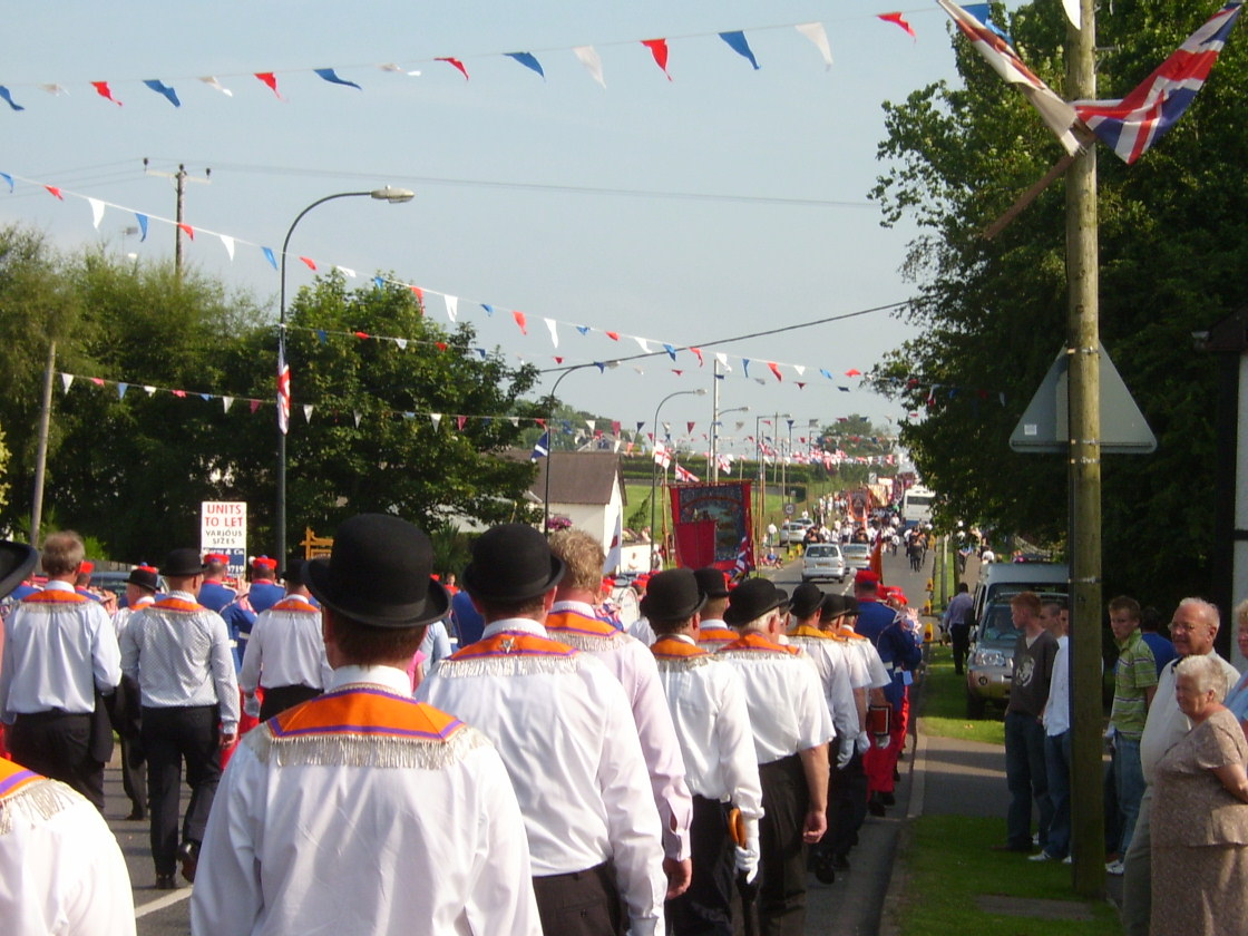 Picture taken by myself at tobermore, 2005